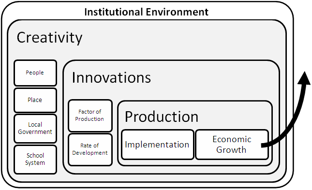 Creative Economics - The System of Economic Growth in Developed regions